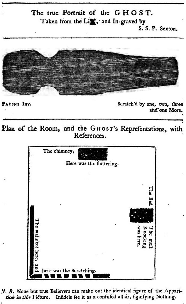 A diagram of the wooden board used by Elizabeth Parsons, and also a diagram of the supposed haunted room.